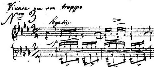 Manuscript of Chopin Etudes Op.10 No.3 ("clean copy" or "Stichvorlage"), ca.1833